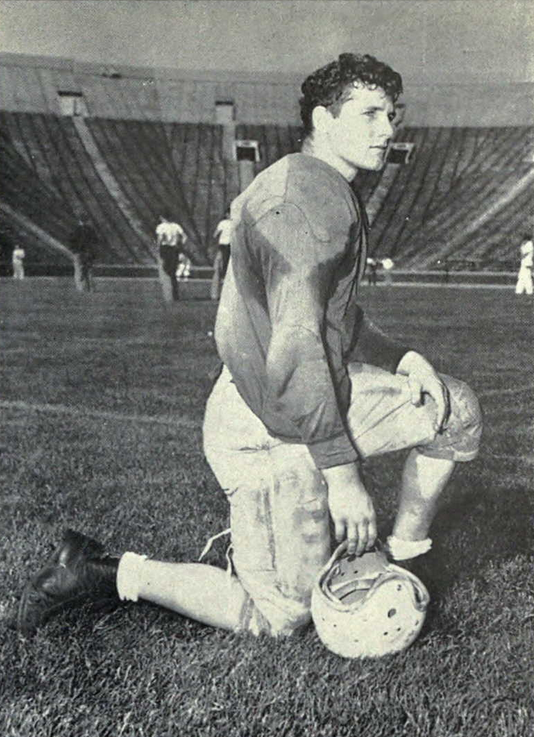 Photograph of Merritt "Tim" Green, end and captain of the 1952 Michigan Wolverines football team This work is in the public domain because it was published in the United States between 1923 and 1963 and although there may or may not have been a copyright notice, the copyright was not renewed. Unless its author has been dead for the required period, it is copyrighted in the countries or areas that do not apply the rule of the shorter term for US works, such as Canada (50 pma), Mainland China (50 pma, not Hong Kong or Macao), Germany (70 pma), Mexico (100 pma), Switzerland (70 pma), and other countries with individual treaties. See Commons:Hirtle chart for further explanation. This work is in the public domain in the United States because it was published in the United States between 1923 and 1977 without a copyright notice. See this page for further explanation. Note that it may still be copyrighted in jurisdictions that do not apply the rule of the shorter term for US works (depending on the date of the author's death), such as Canada (50 p.m.a.), Mainland China (50 p.m.a., not Hong Kong or Macao), Germany (70 p.m.a.), Mexico (100 p.m.a.), Switzerland (70 p.m.a.), and other countries with individual treaties.